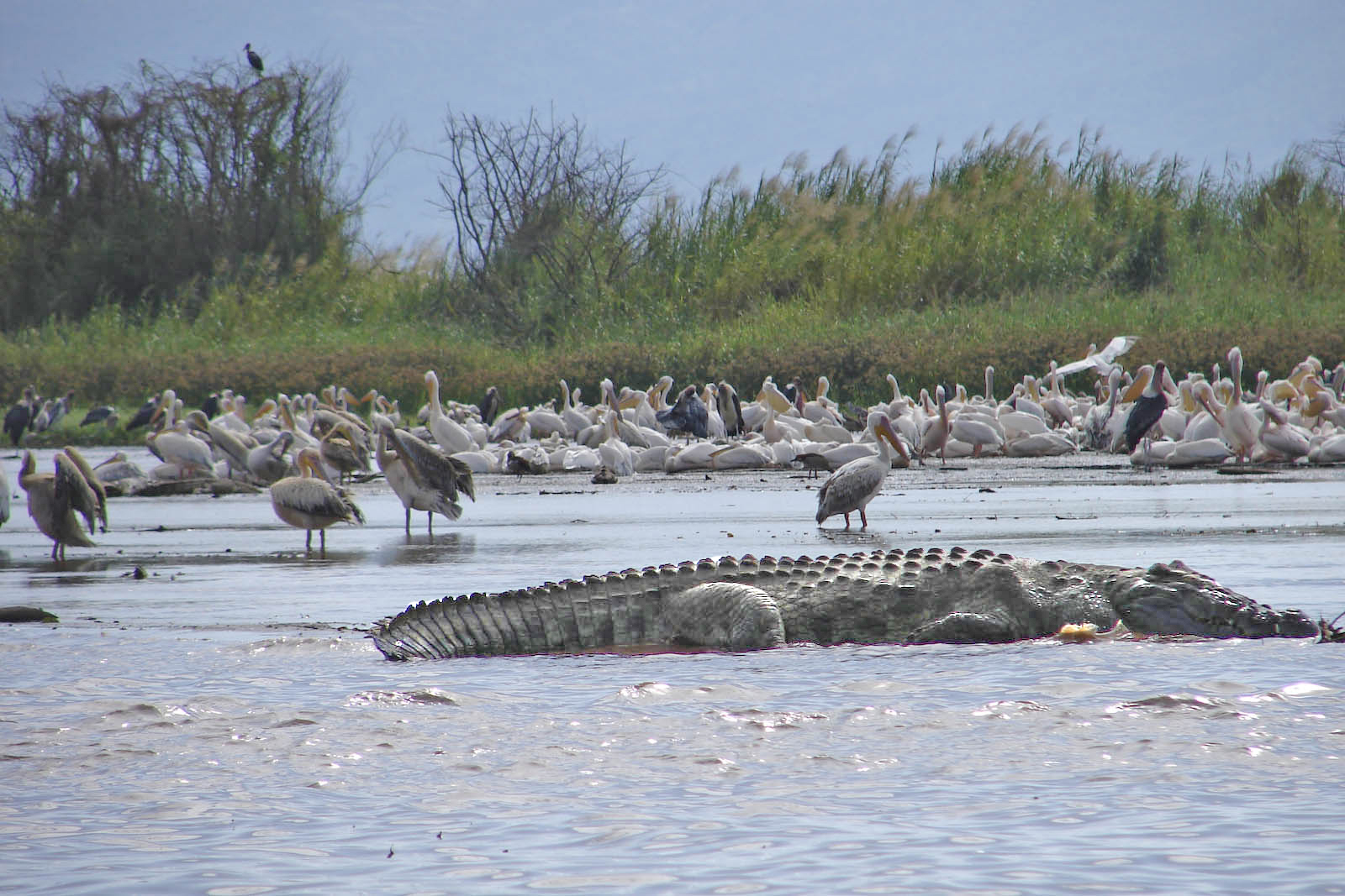 Nile Crocodile and pelicans at Lake Chamo (Ethiopia)